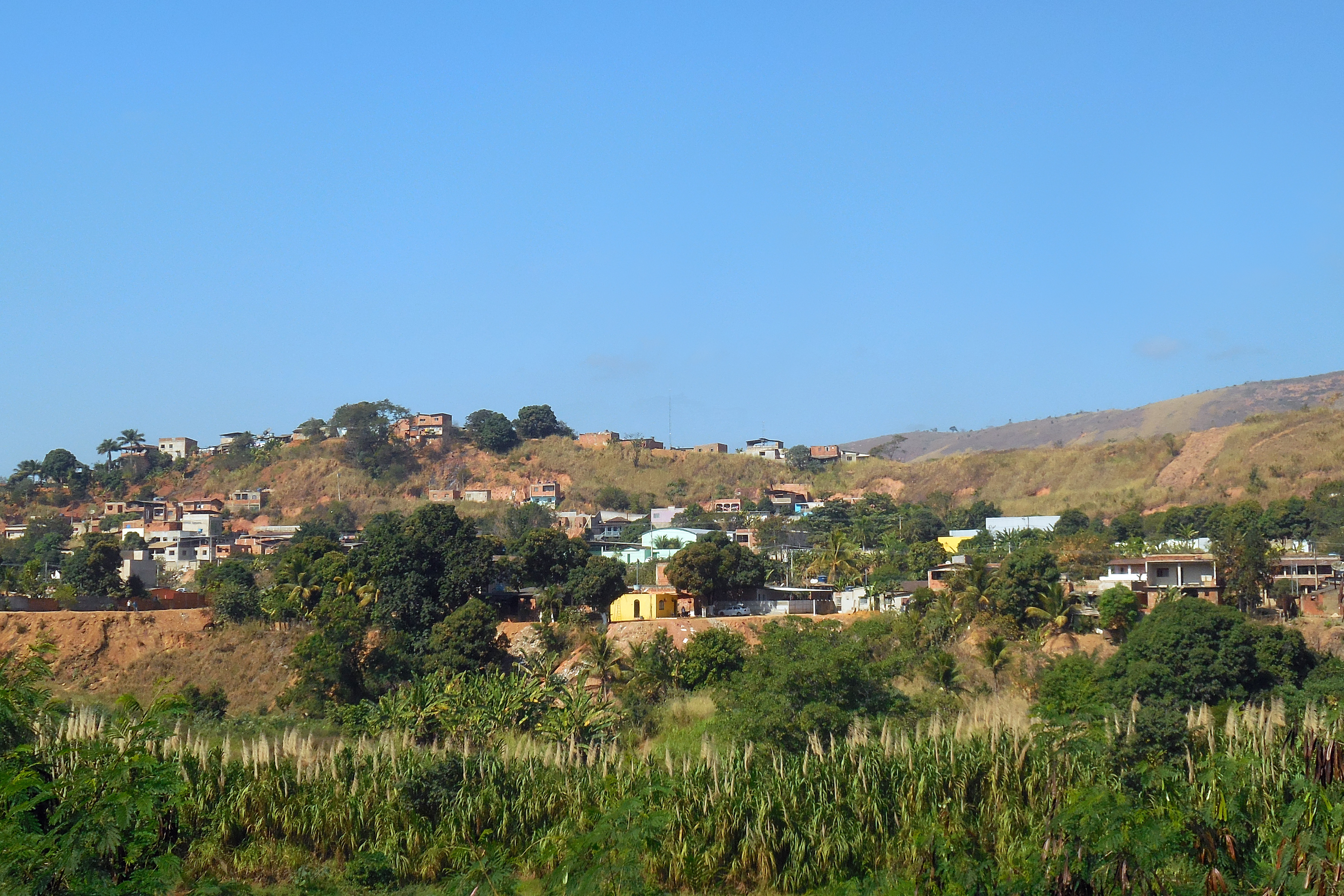 Partial view of the Nova Esperança neighborhood, in Timóteo, Minas Gerais, Brazil.